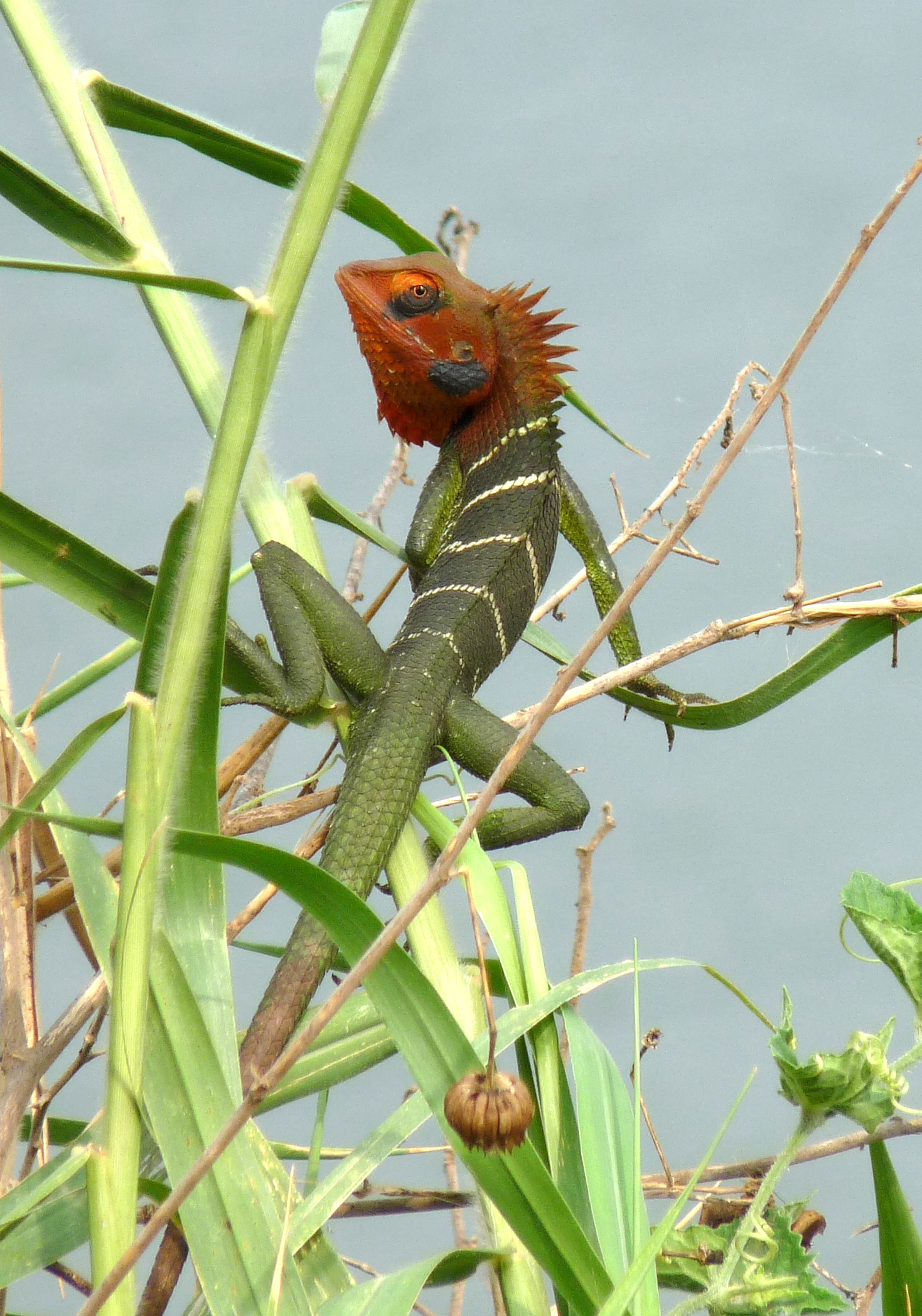 Common Green Forest Lizard (Calotes calotes)